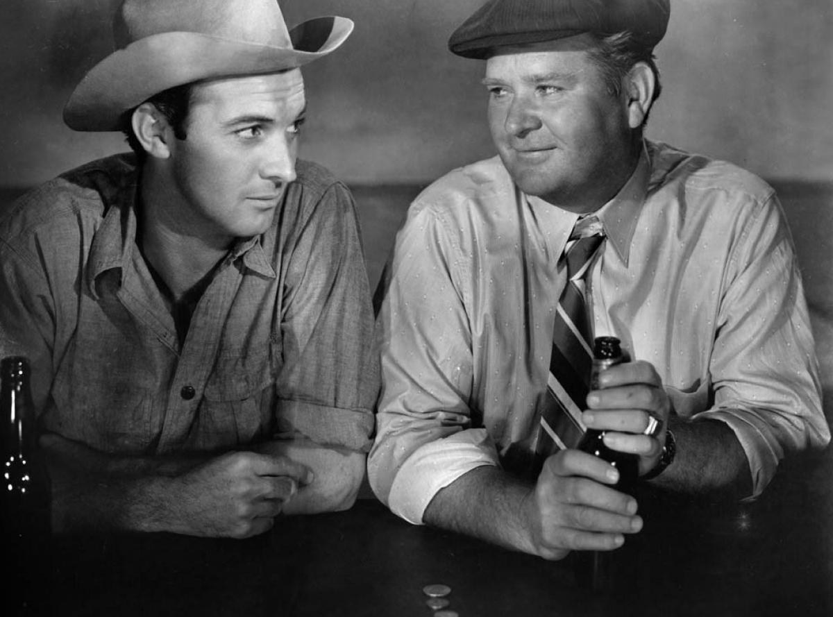 Zachary Scott (left) & Charles Kemper in The Southerner - cropped screenshot